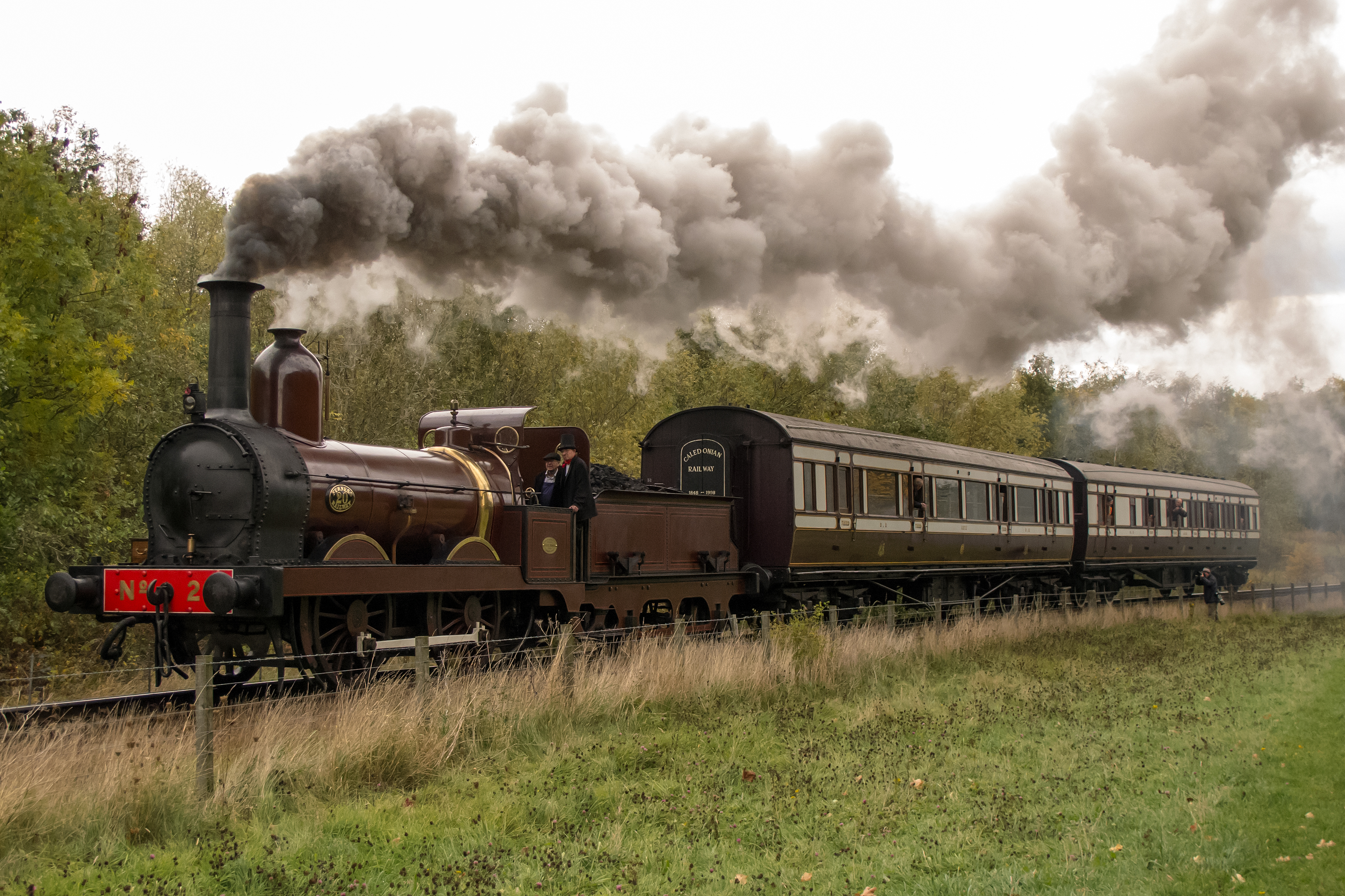 Furness Railway steam locomotive No.20. Built in 1863 by Sharp, Stewart & Co.for the Furness Railway, this is Britain's oldest standard-gauge operational steam locomotive. It was making its first visit to Scotland at the Bo'ness & Kinneil Railway 'Autumn Steam Gala' and is seen hauling two vintage Caledonian Railway carriages at Kinneil. Notice the top-hatted gentleman on the footplate in this Victorian scene.